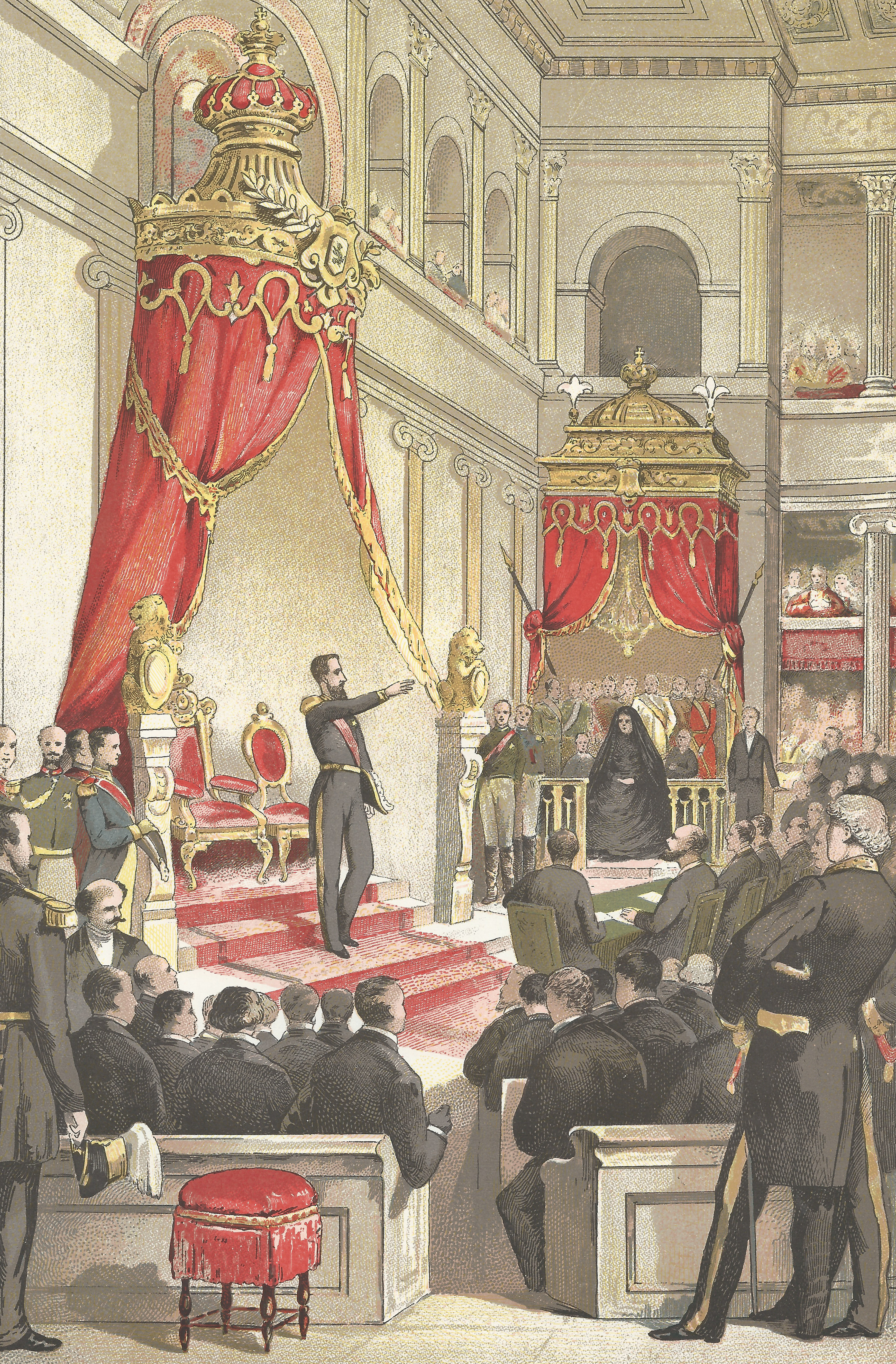 Oath-taking of Leopold II of Belgium, Palace of the Nation (Brussels), 17 December 1865.